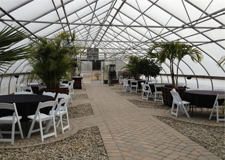 A picture of the inside of the "Tropical Oasis" greenhouse at Beneduce Vineyards in Pittstown, NJ. Formerly used for growing plants for a garden center, this greenhouse is now used for hosting special events at the winery.